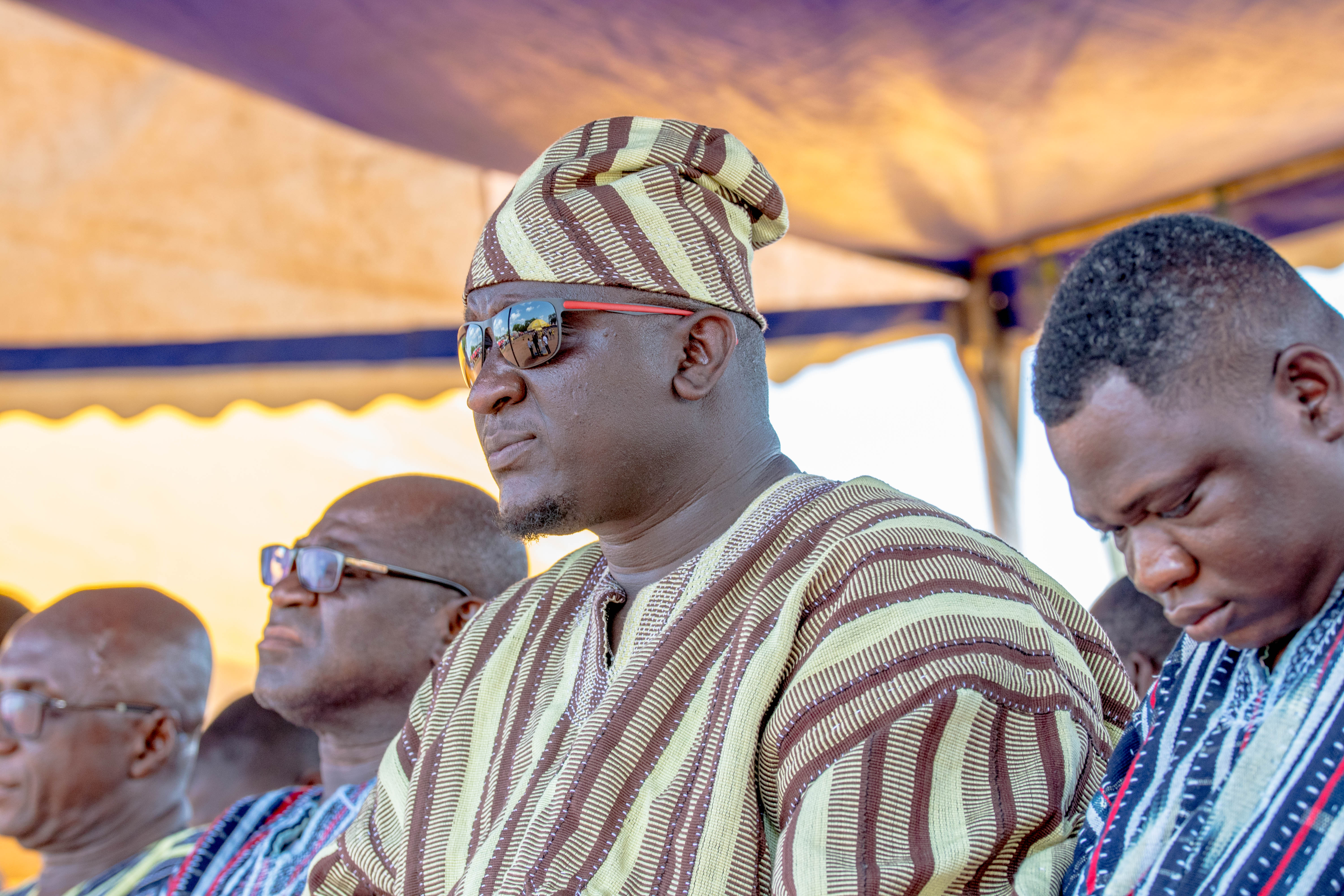 Anthony Karbo at the Kobine Festival. Seated in between (r) Amidu Chiana (Deputy Upper West Regional Minister) and (l) Alhassan Sulemana